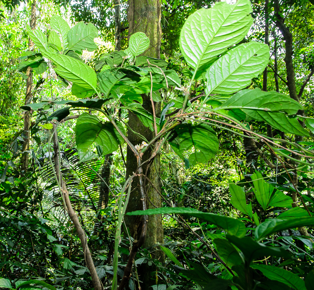 Silvianthus bracteatus (Carlemanniaceae). Voucher: Swenson et al. 1414. Vietnam, Ninh Bình Province, Cuc Phuong National Park: along the circular trail from visitor center (Bang), alt. 300 masl (20.34833 105.58111). Swedish Museum of Natural History expedition to Vietnam 2013, sponsored by National Geographic Global Exploration Fund Northern Europe. Photo: Johannes Lundberg